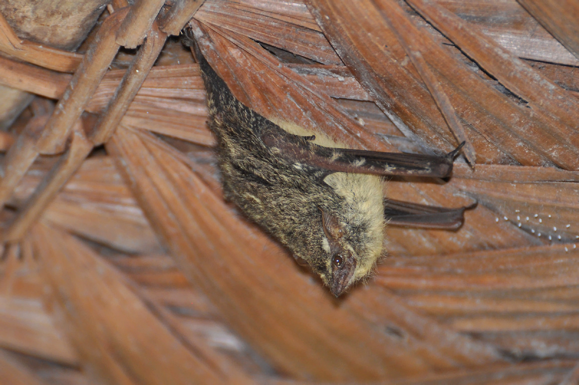 Proboscis Bat, Rhynchonycteris naso photographed in the Amazon, Brazil, in November 2010.